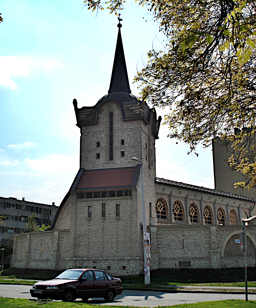 Uppertown Reformed Church. Located:Győri kapu utca, Miskolc, Hungary